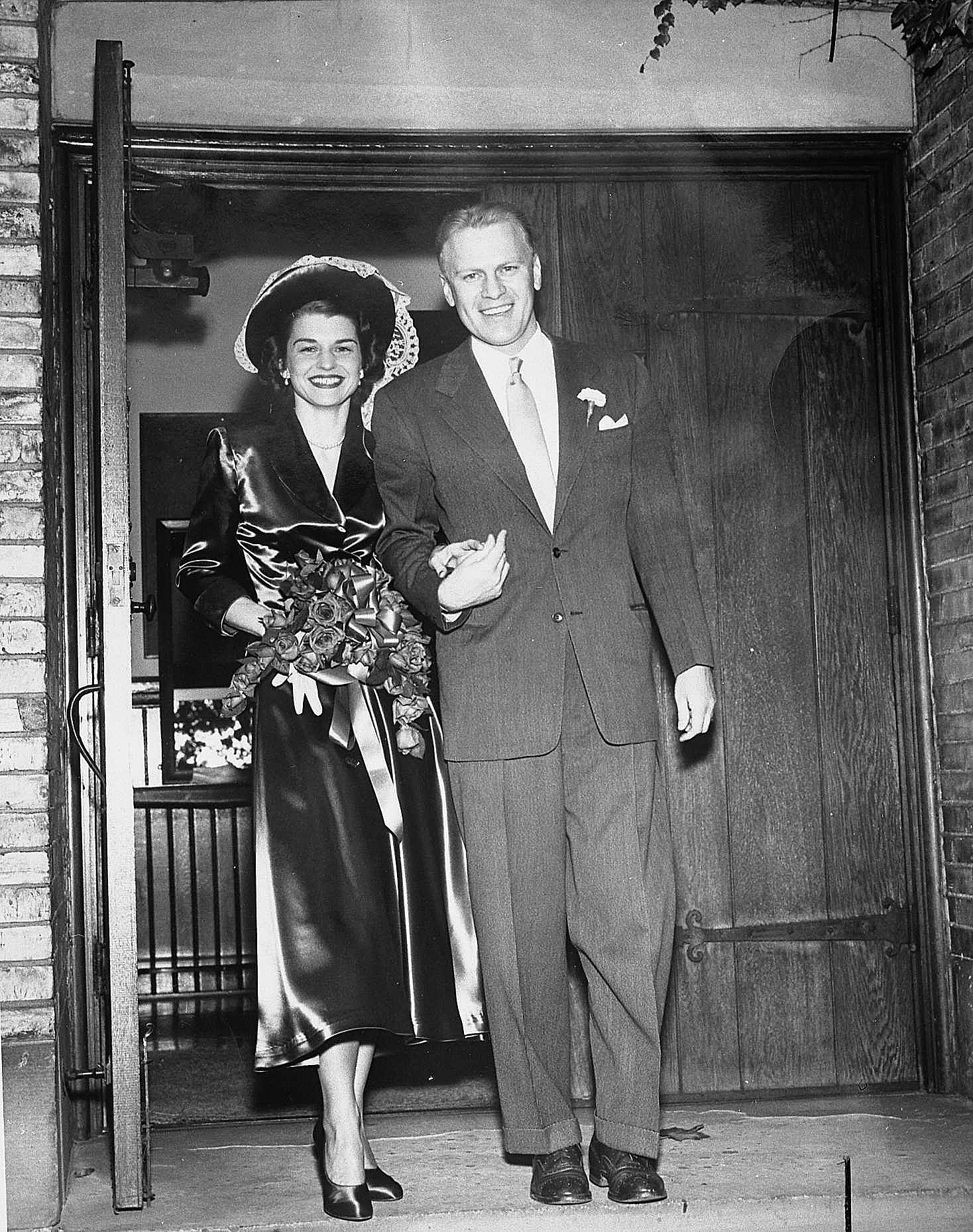 Gerald R. Ford, Jr., and Betty Ford walk out of Grace Episcopal Church in Grand Rapids, MI, following their marriage on October 15, 1948.